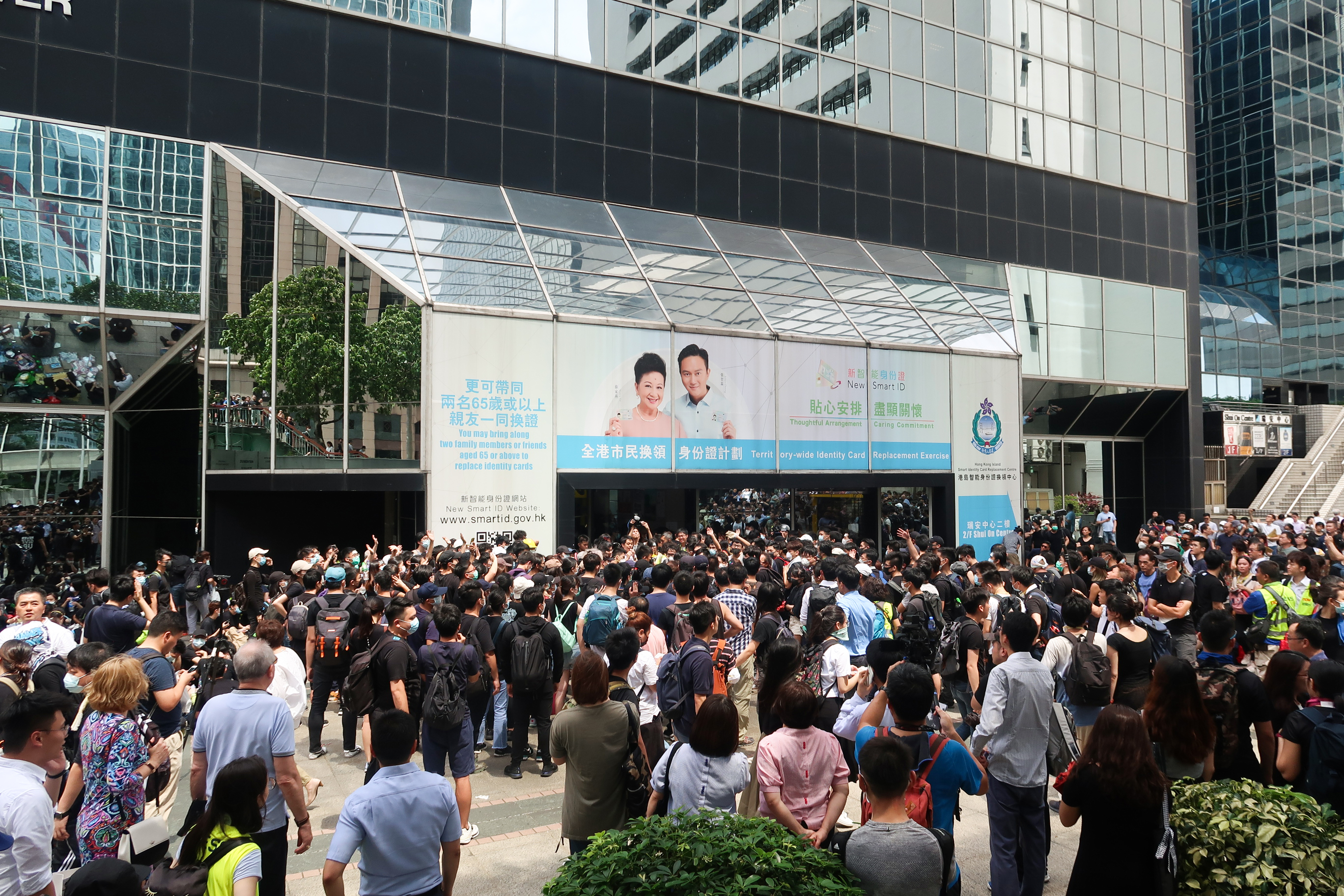 Protesters occupy Revenue Tower